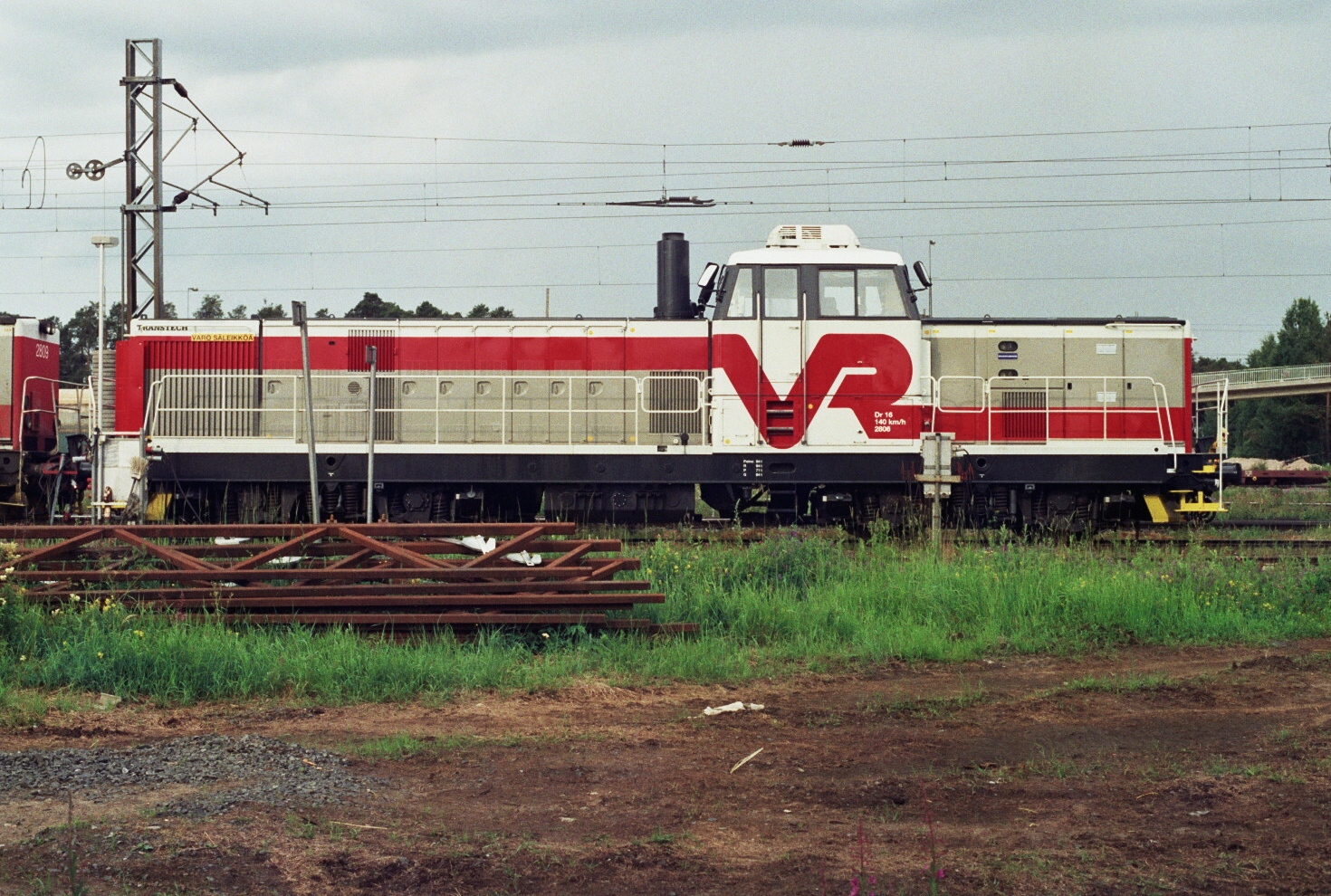 A Finnish diesel locomotive, VR class Dr16, number 2806, near the engine shed of VR in the city of Oulu in Finland. The locomotive has obviously been renovated in 2008/2009.